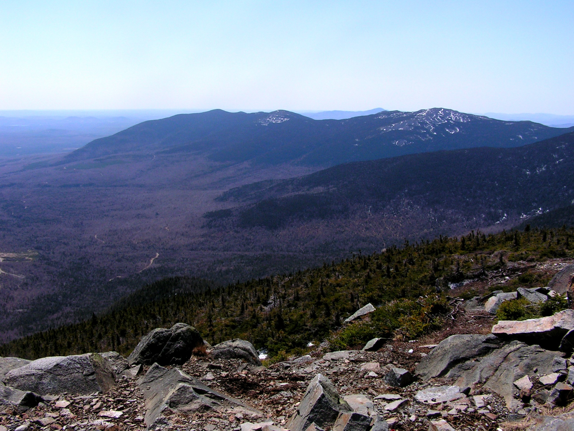 Mount Abraham viewed from the top of Sugarloaf Mountain in Carrabassett Valley, Maine